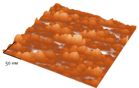 Calcium hydroxylapatite surface taken from scanning probe microscope. There are nanoclasters of Ca-HAp with characteristic size around 30 nm